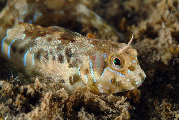 Male Aidablennius sphynx (head) photographed near Tuscany coasts (Italy). Photo by Stefano Guerrieri.